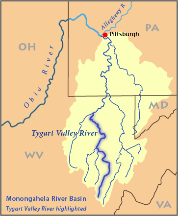 This is a map of the Monongahela River basin, with the Tygart Valley River in West Virginia highlighted. Credits I, Pfly, made it, based on USGS data.